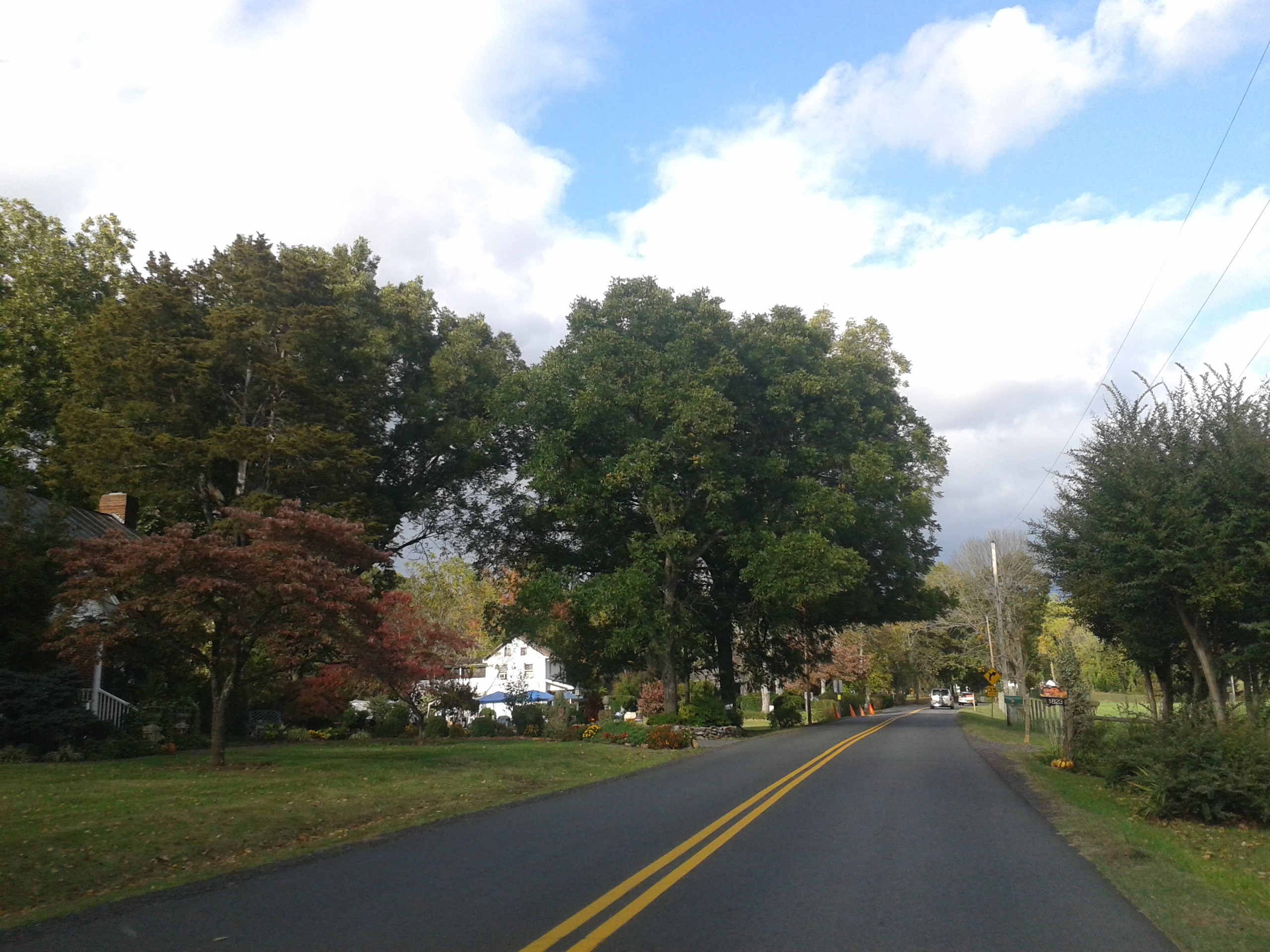 House in Haywood, Virginia